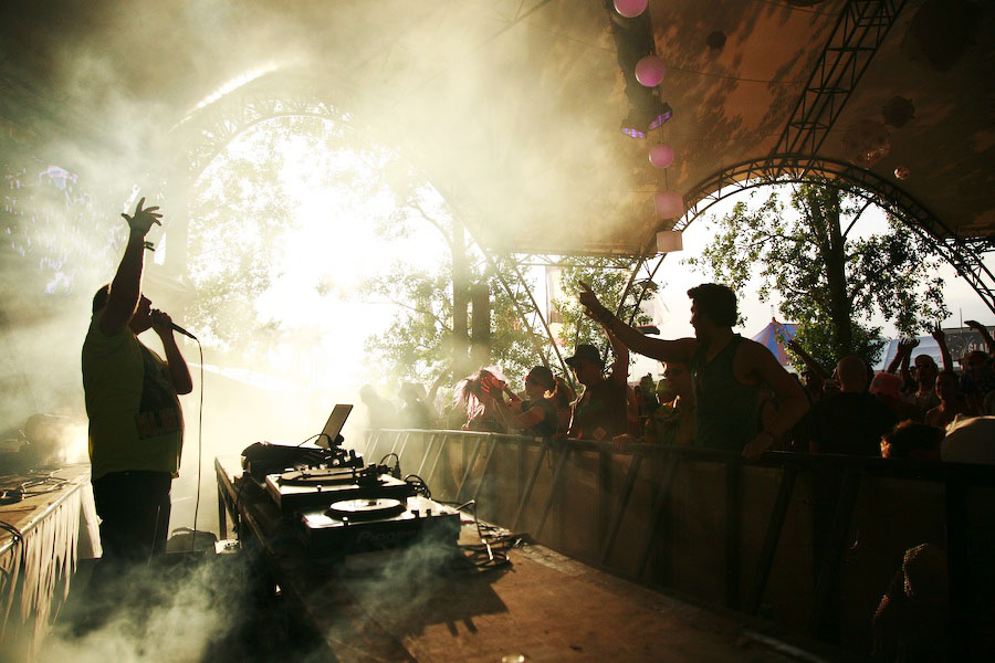 Dj Donna Summer (AKA Jason Forrest) performing live at Glastonbury Festival, UK.